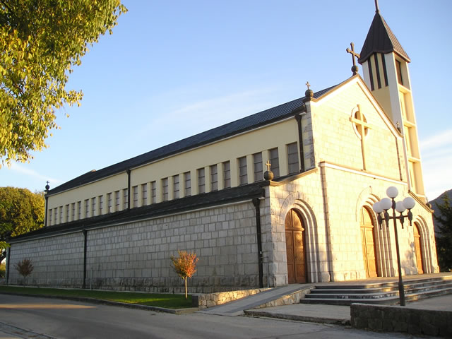 Roman Catholic church of St. Elijah in Tihaljina,Grude